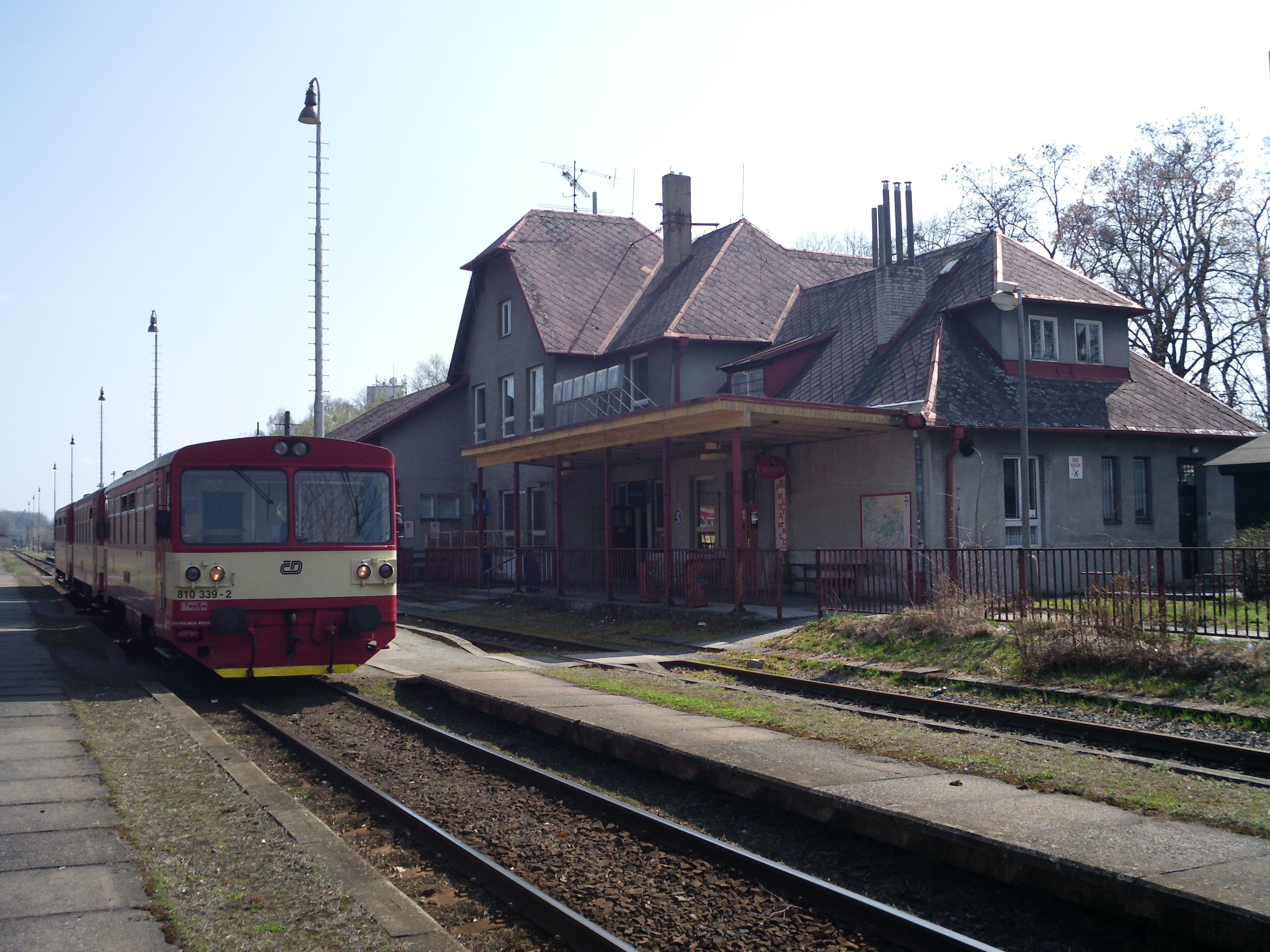 Train station in Hlučín, Czech Republic, with a "810" diesel railcar (810 339-2) on a regular passenger train.